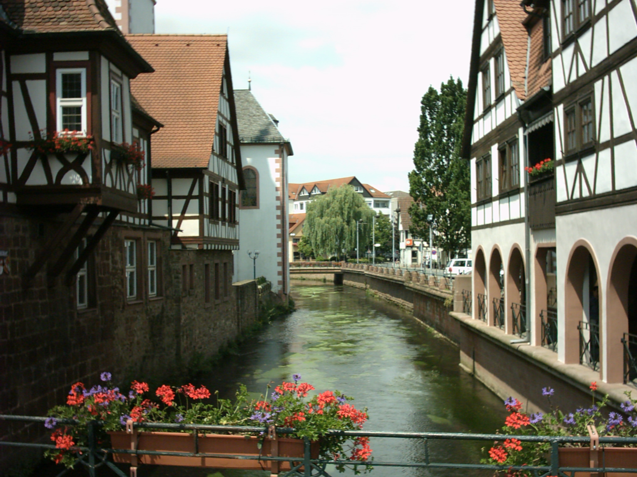 The river Muemling in Erbach (Odenwald, Germany).